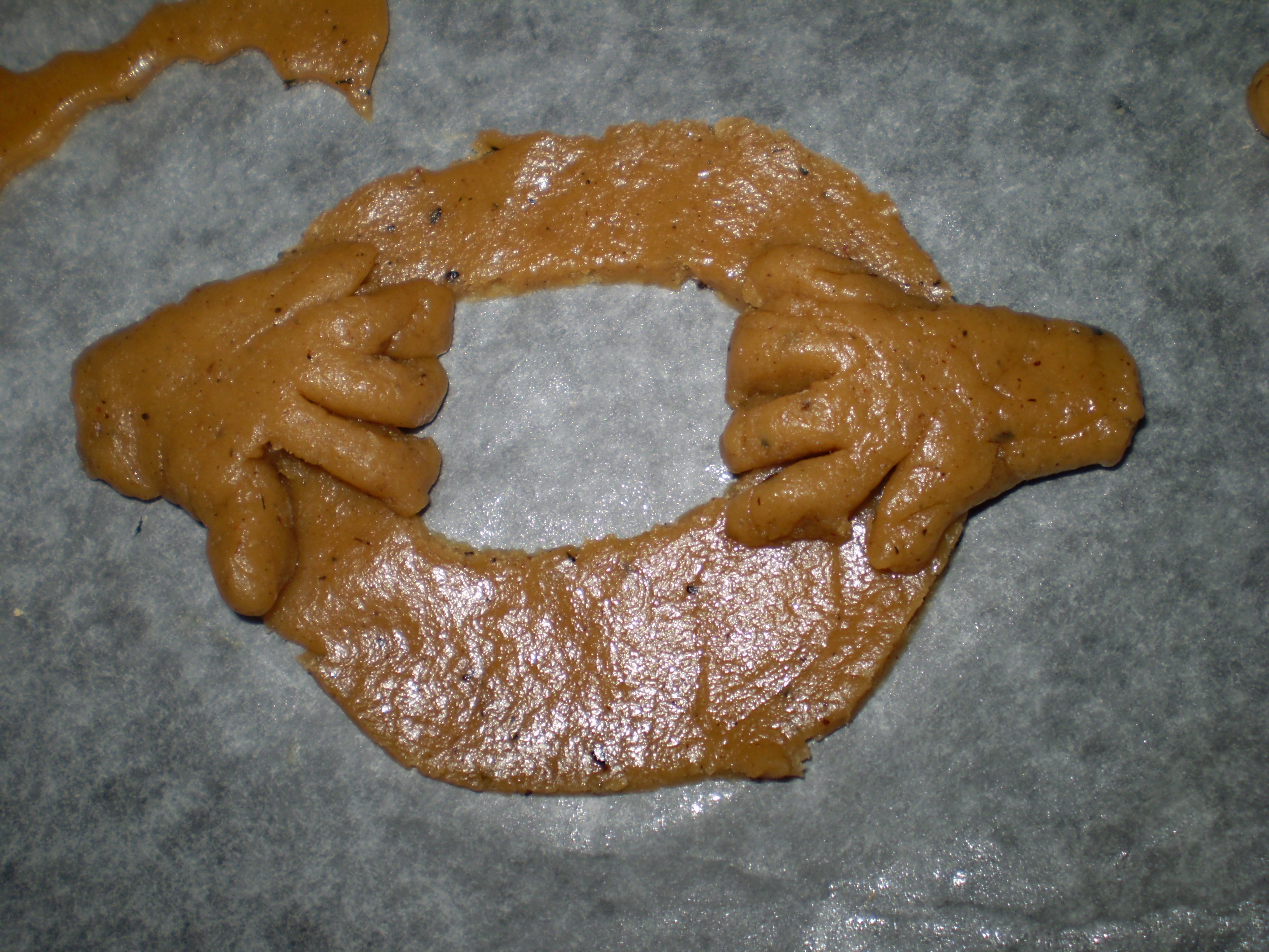 An unroasted cookie, looks like goatse